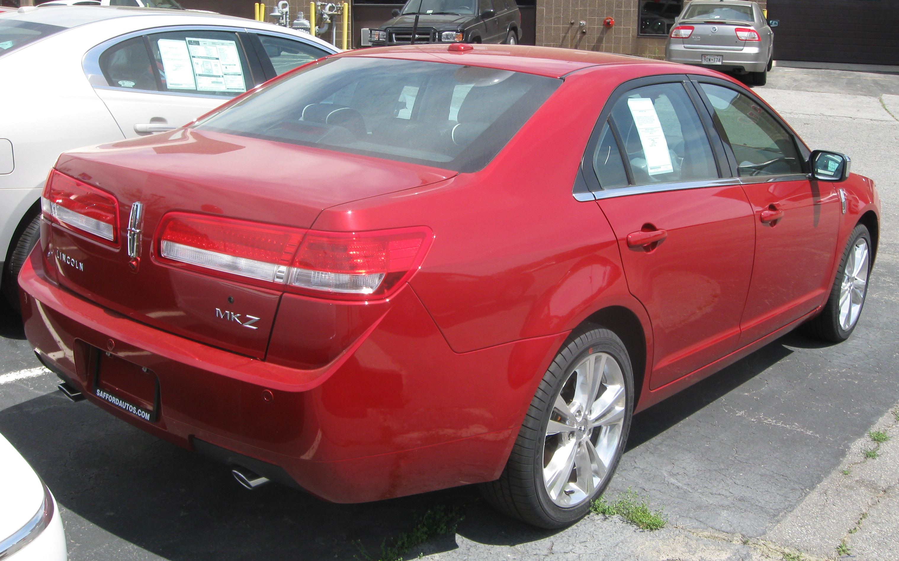 2010 Lincoln MKZ photographed in Silver Spring, Maryland, USA.